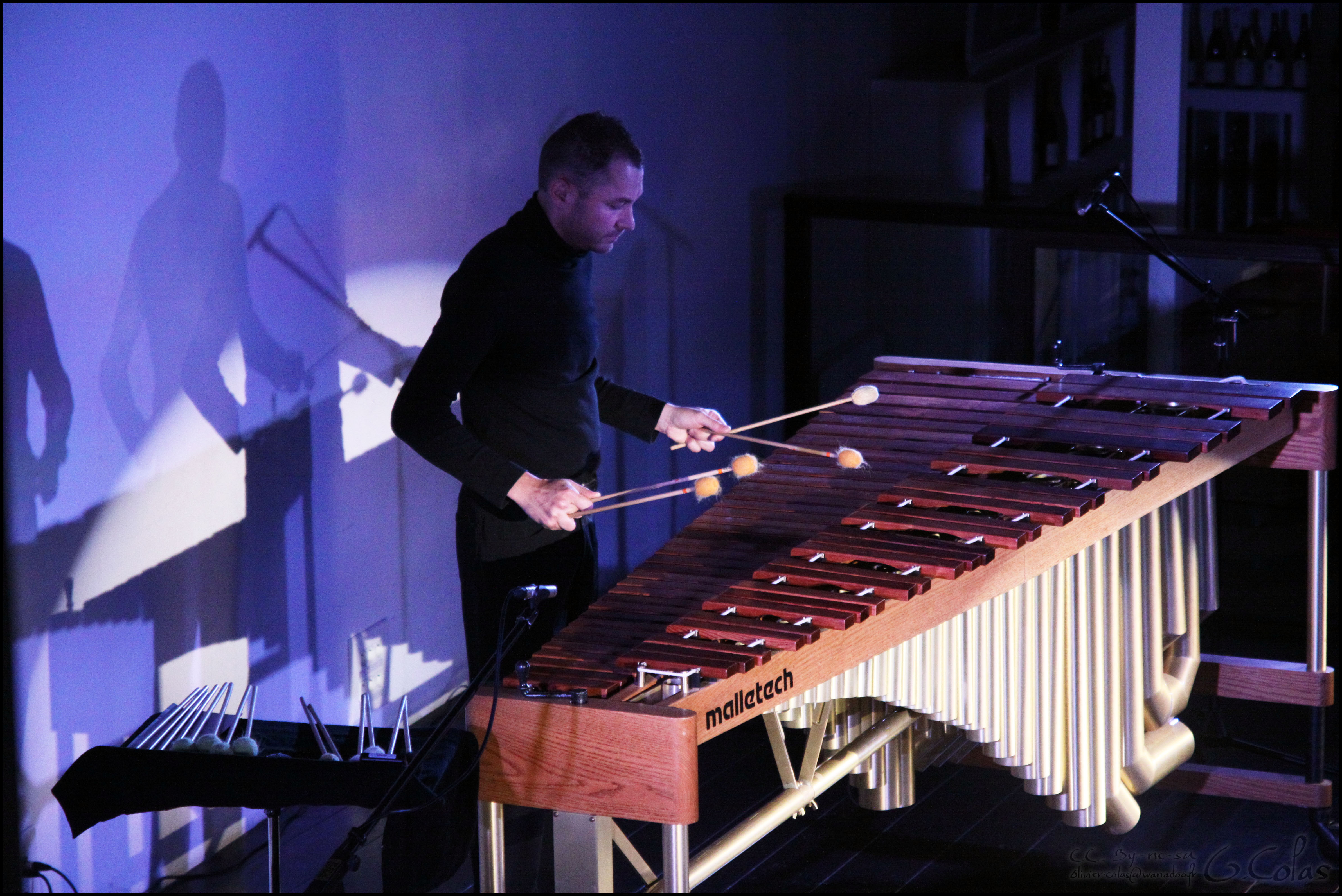 Marimba player